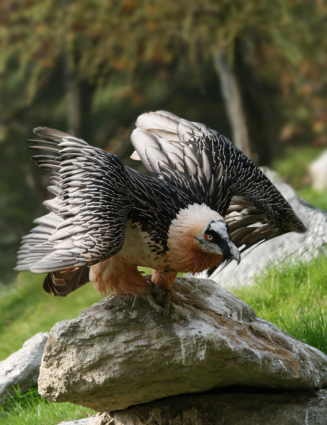 Description: The Lammergeier or Bearded Vulture, Gypaetus barbatus ("Bearded Vulture-Eagle"), is an Old World vulture, the only member of the genus Gypaetus.